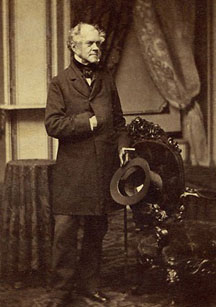 George Ticknor, standing with top-hat in hand